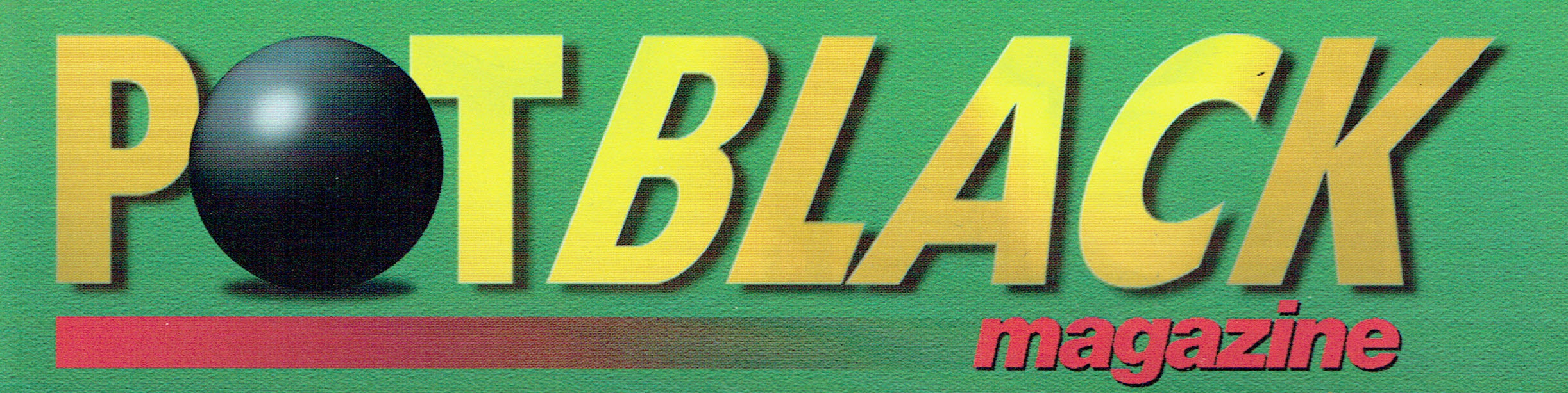 Title of Pot Black Magazine